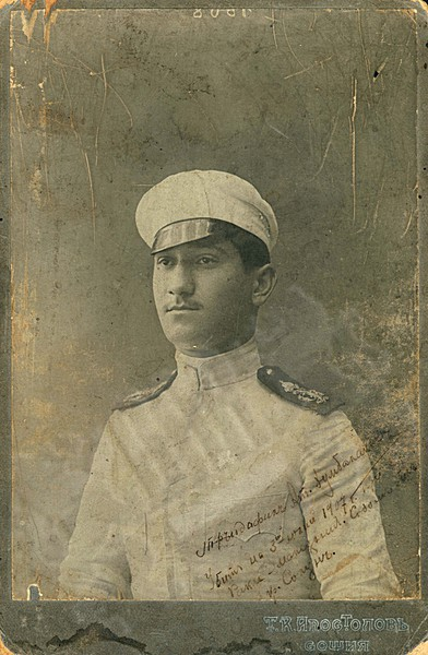 Trendafil Dumbalakov.